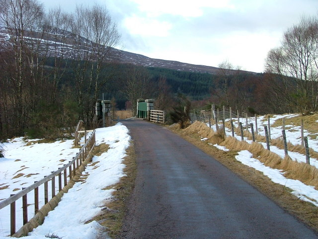 Railway bridge on the Fersit road